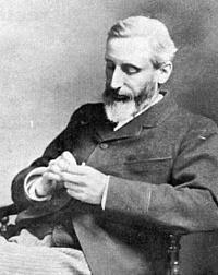 Charles Grant Blairfindie Allen